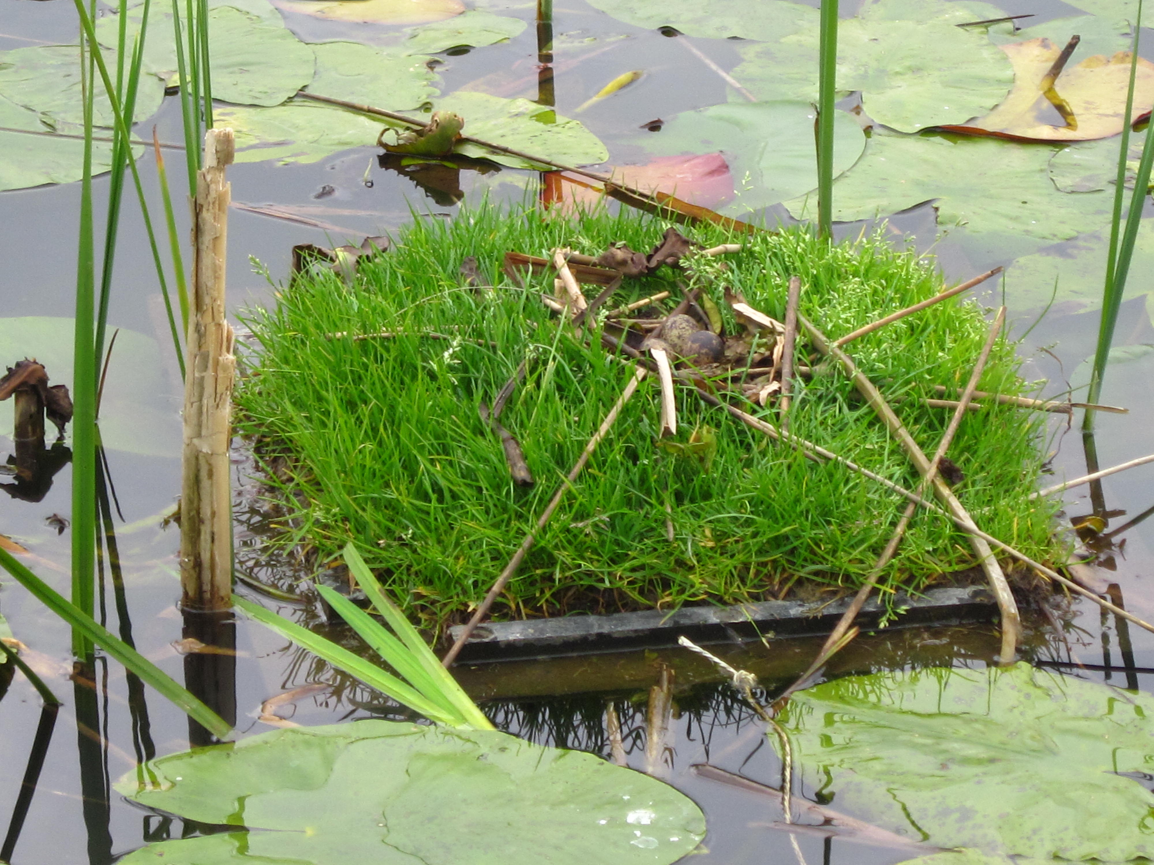 Zwartestern nest met drie eieren op vlotje in dode arm van de IJssel